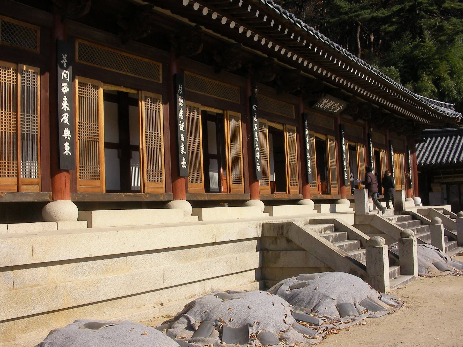 A Seonbang (Meditation Hall) in Donghwasa, a Buddhist temple located in the northern Daegu, South Korea